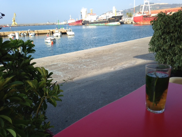 Spearmint and green tea in Ceuta harbour